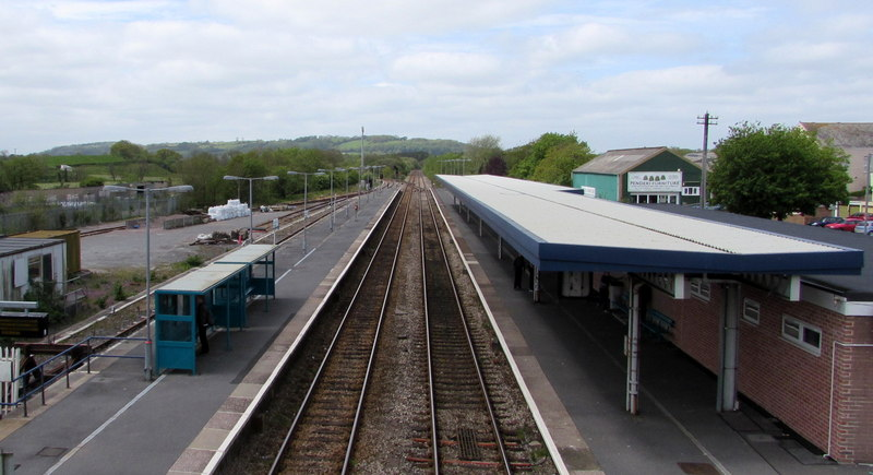 Through Whitland railway station